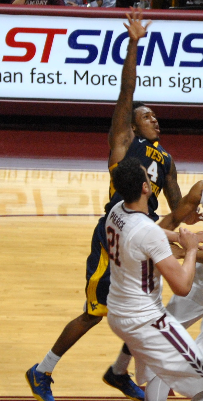 Daxter Miles, Jr., battles in the Paint for the Mountaineers